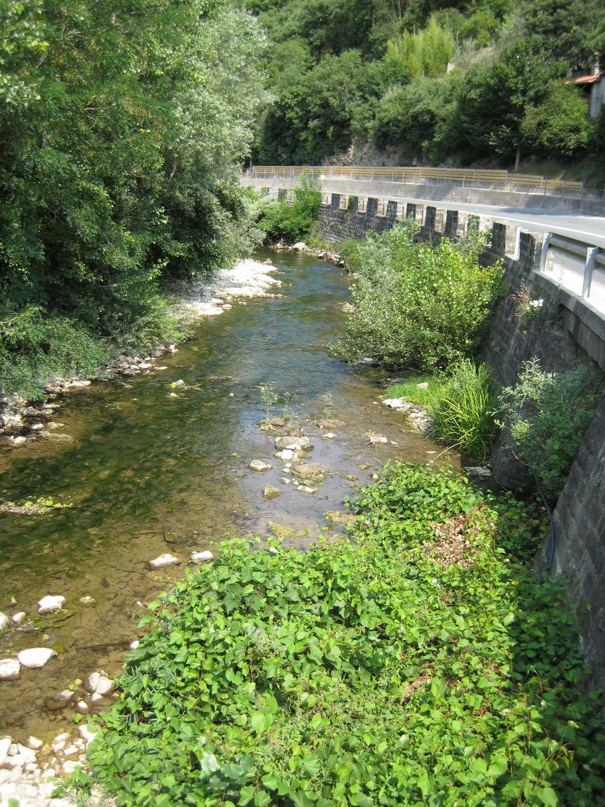 Rižana river (dry period) in the village of Rižana, Municipality of Koper, Slovenia.